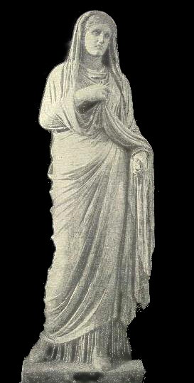 From the statue found at Pompeii. Now in the Museo Nazionale, Naples. Eumachia, a public priestess of ancient Rome.